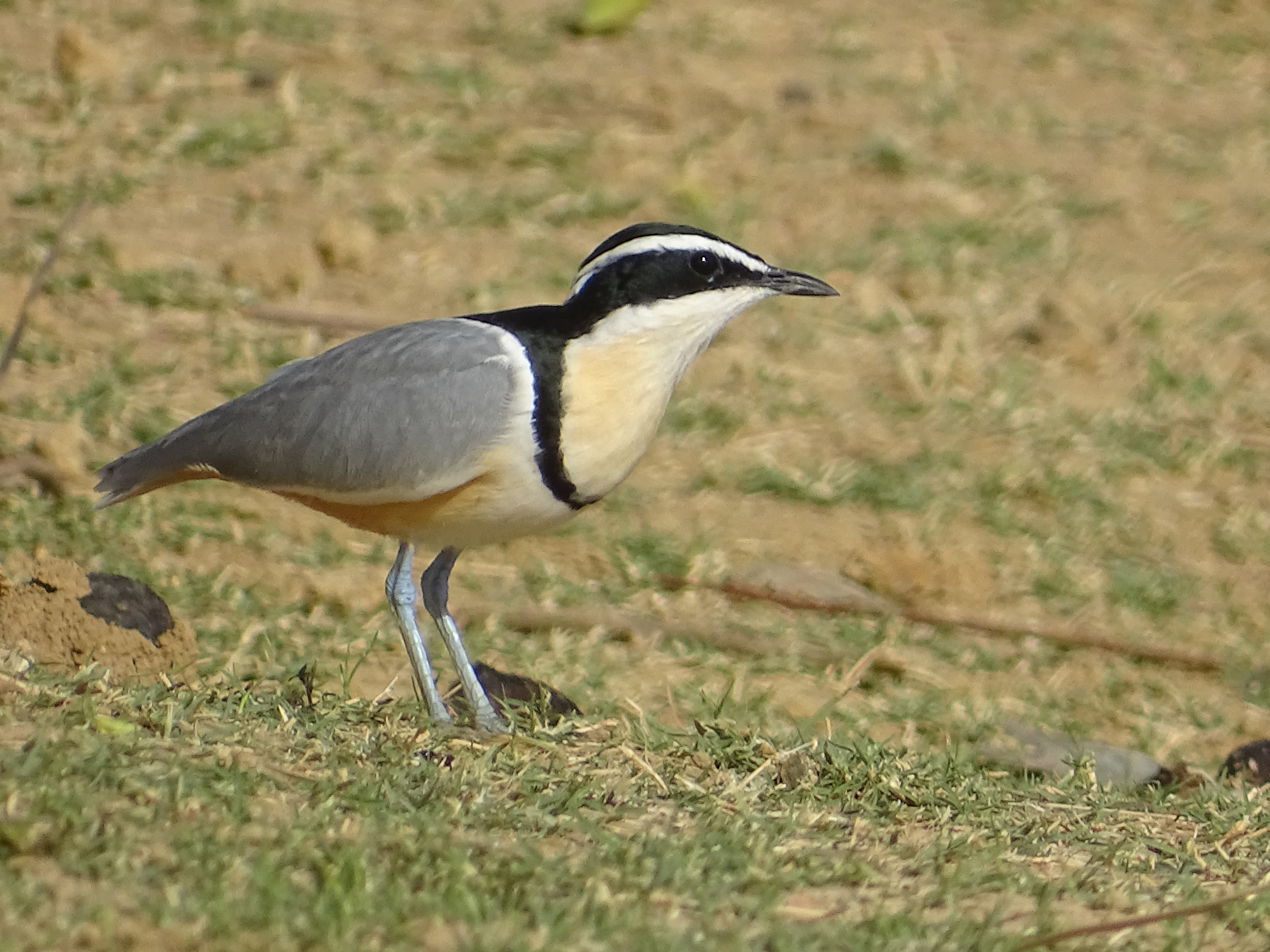 The Pluvians fluviatiles live in isolated couples or in small groups near the water, rarely exceeding twenty individuals. They have little fear of men and generally live close to home. They are known to penetrate the mouths of crocodiles in order to collect food remains and parasites, which earns them the nickname "crocodile bird" in English.